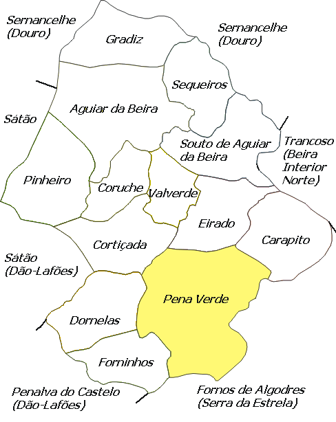 Map of Pena Verde parish in Portugal. Author: Kullanıcı:Mskyrider.